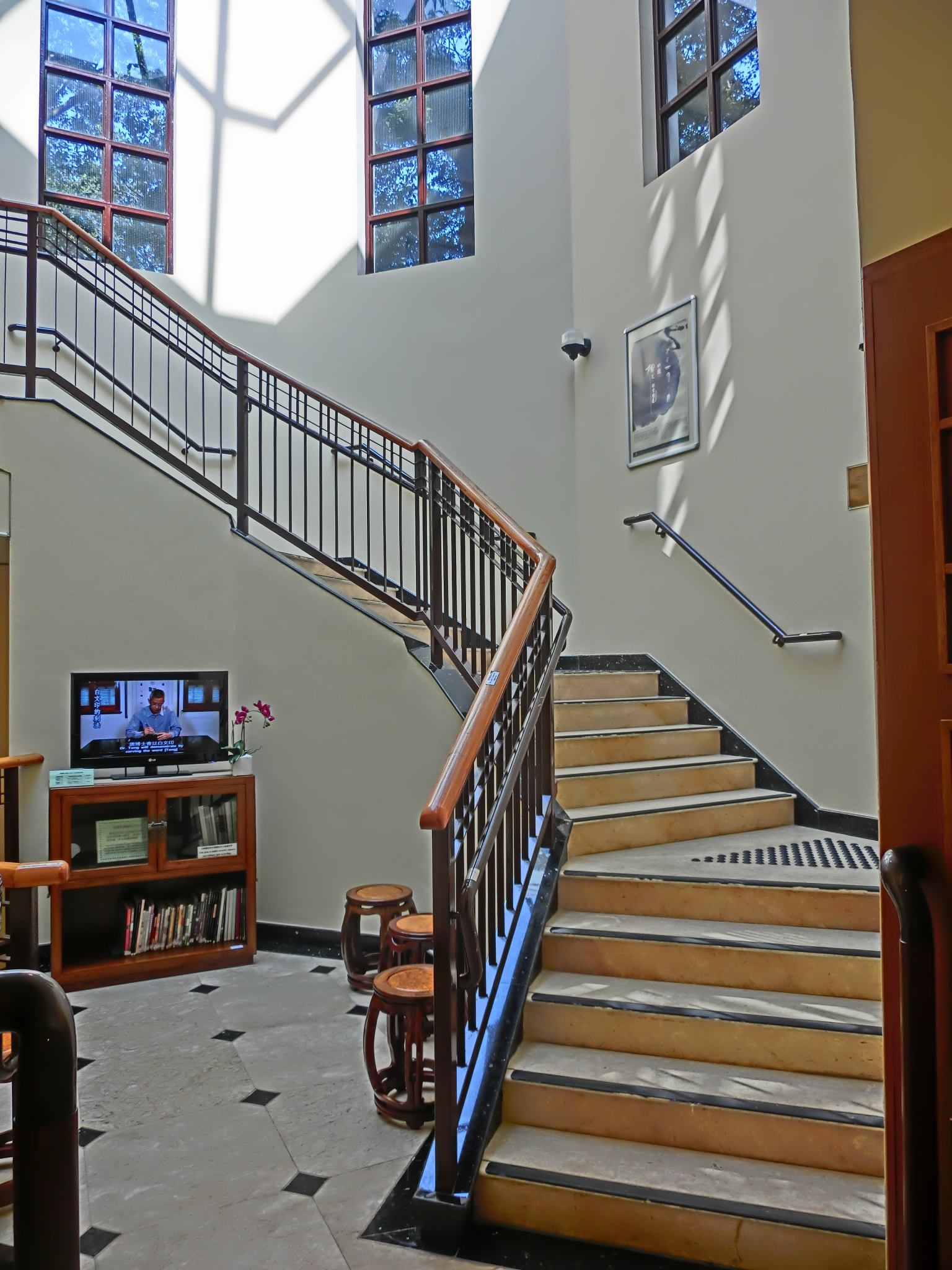 香港茶具文物館, Museum of Tea ware Dr SK Lo Gallery, Hong Kong Park, Hong Kong